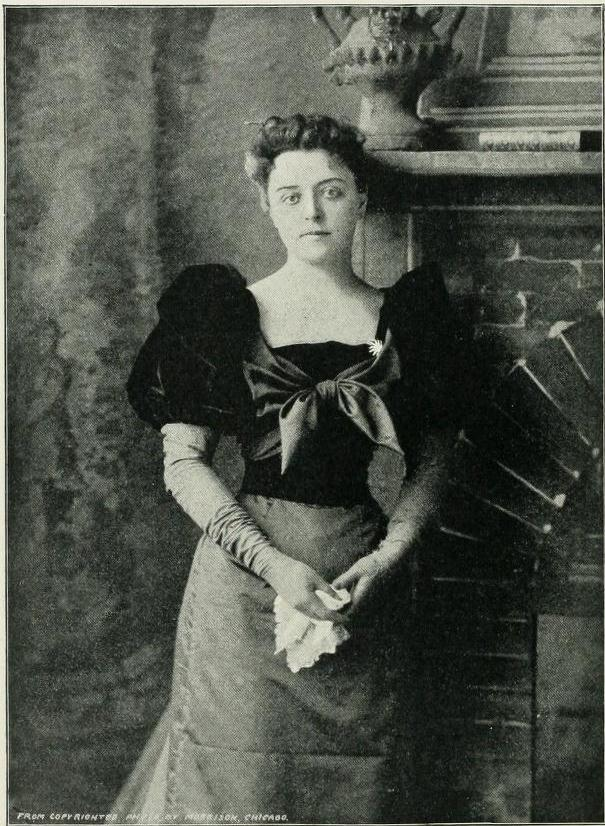 Photograph of actresss Marie Burroughs circa 1894 in The Marie Burroughs Art Portfolio of Stage Celebrities (A.N. Marquis & Company 1894)